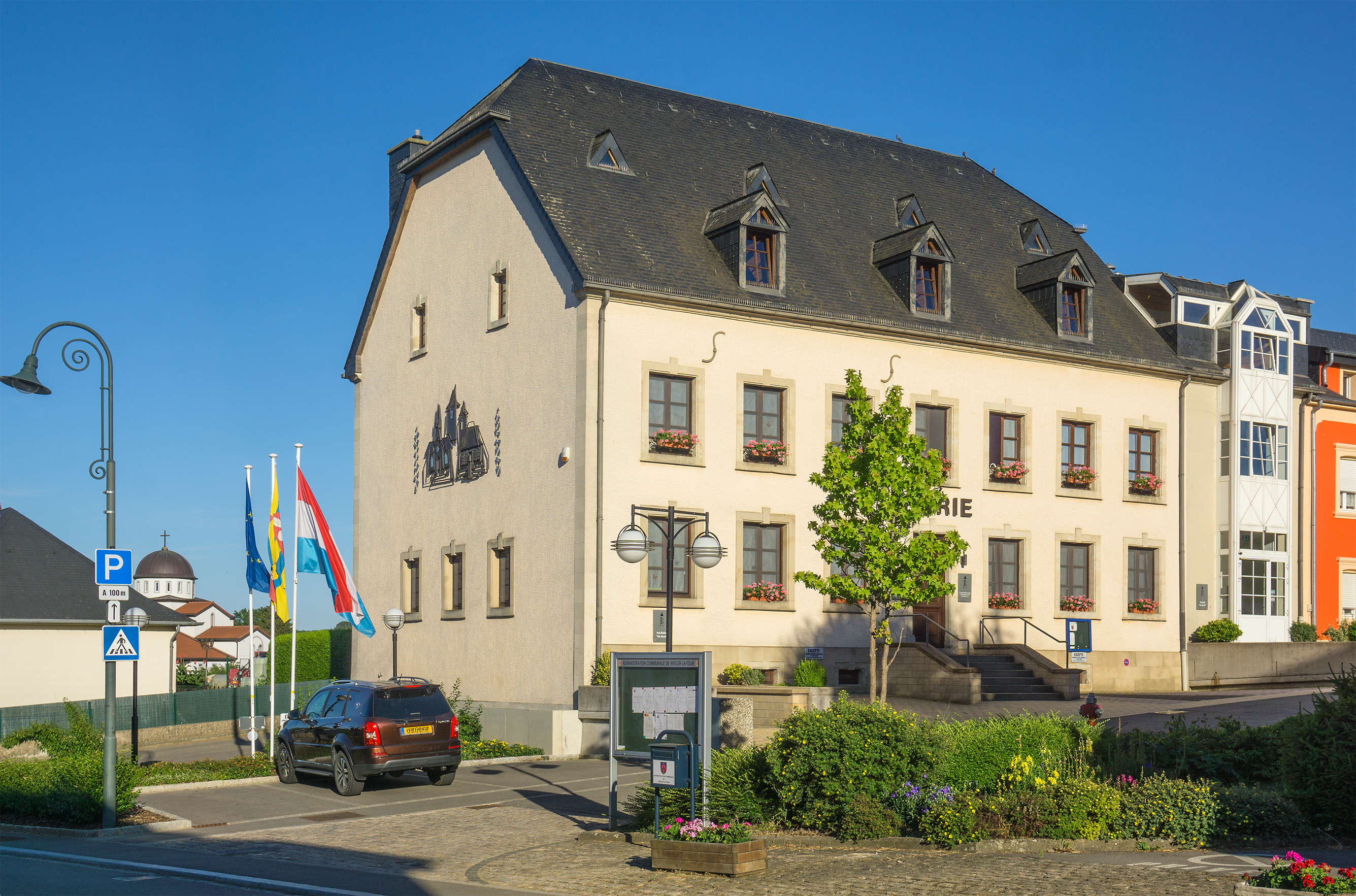 The town hall of Weiler-la-Tour